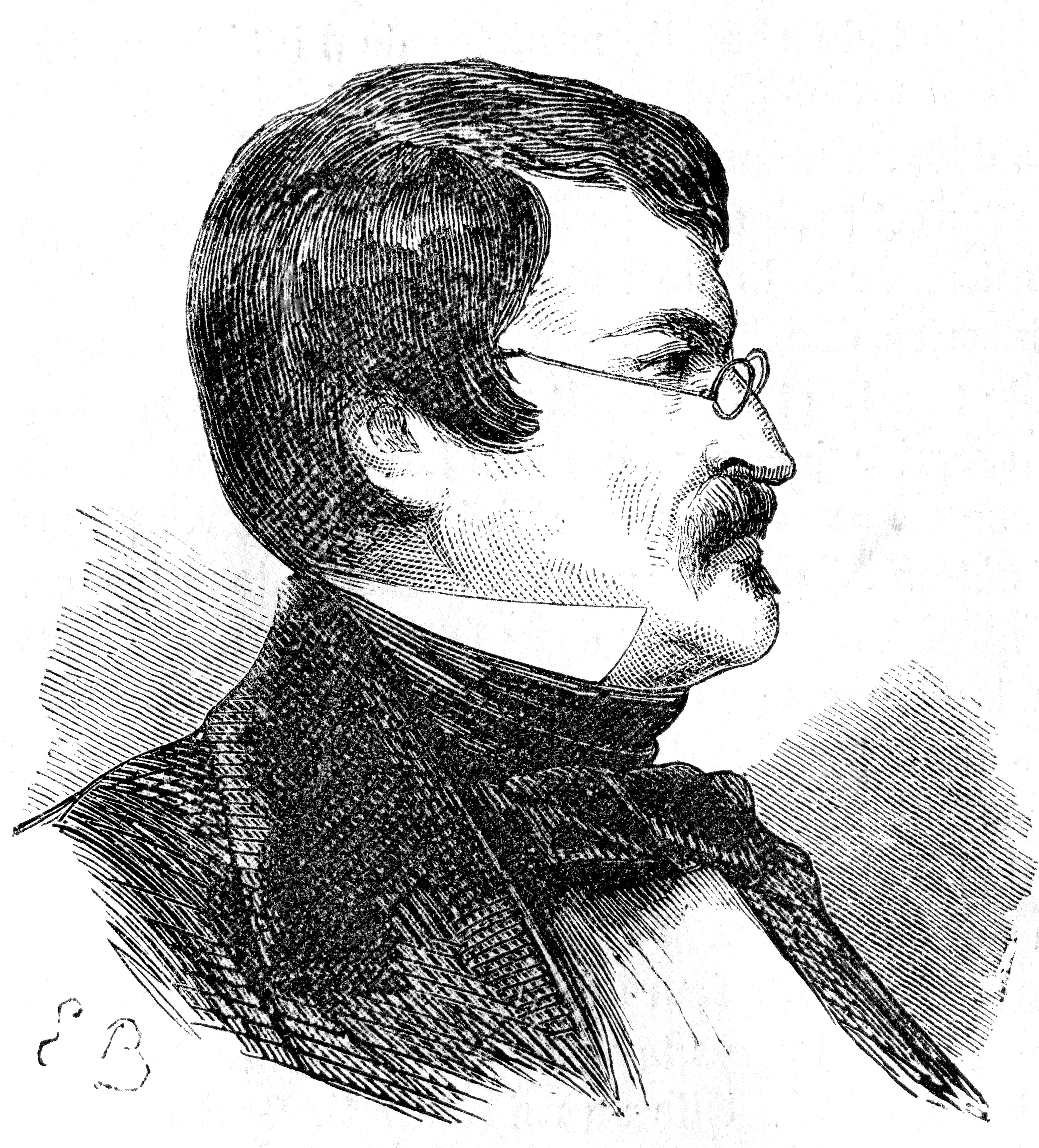 L'Illustration 1862 gravure ministre Conforti